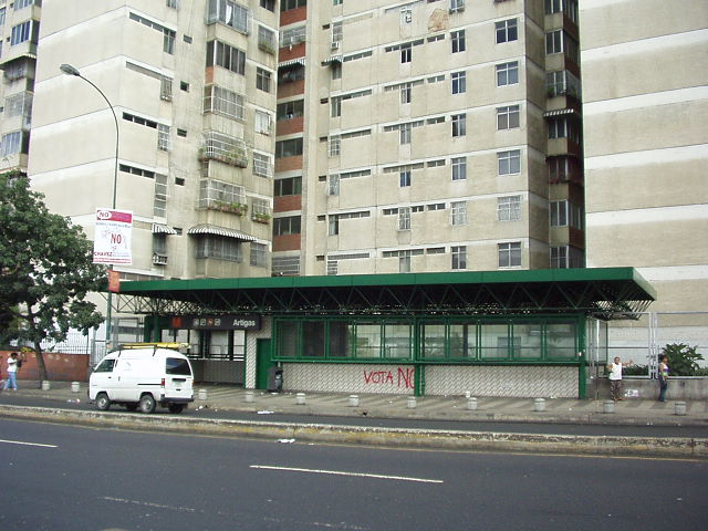 Artigas Station of Caracas Metro. Caracas, Venezeula.